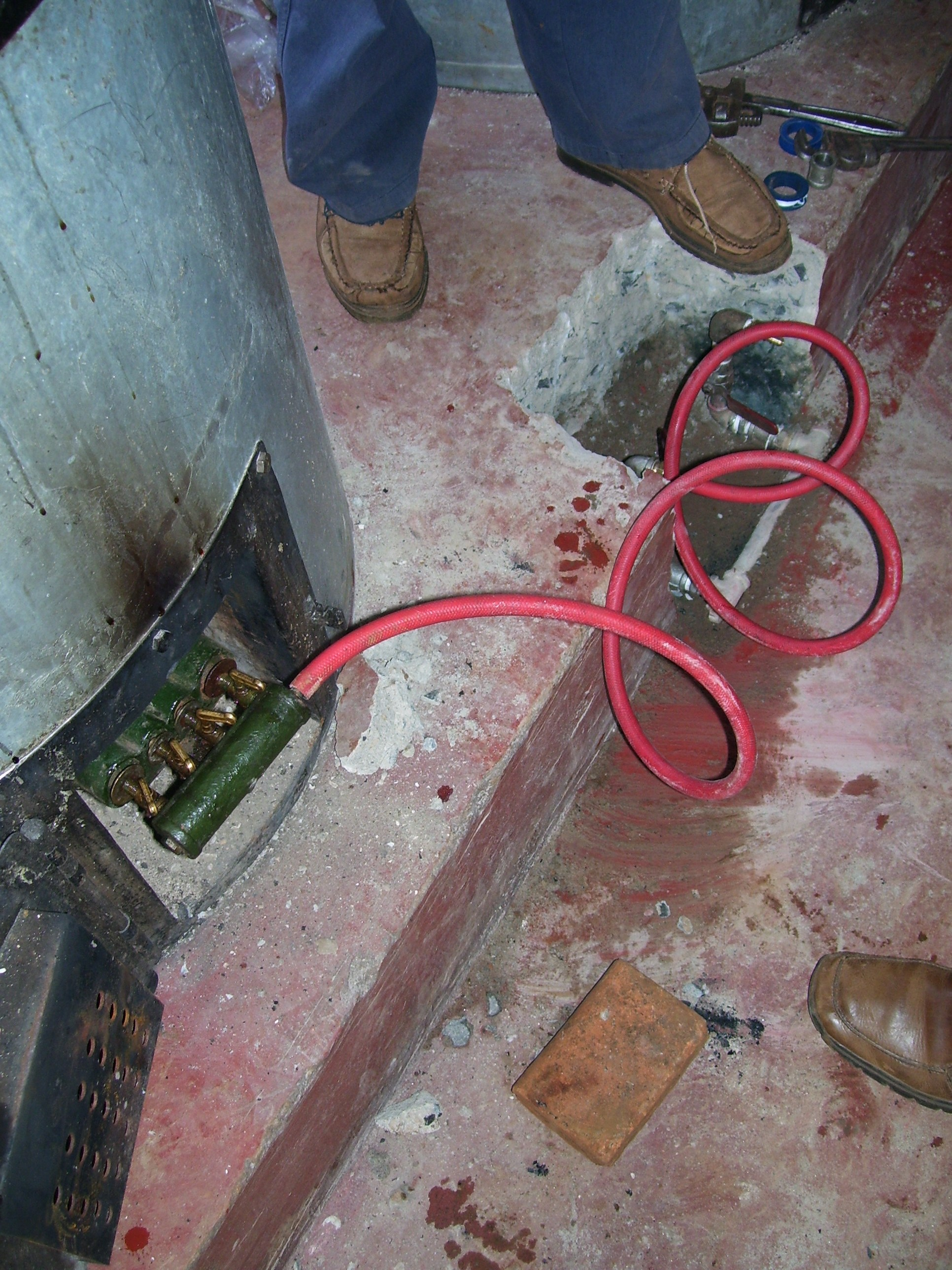 Gachoire Girls High School - Biogas plant construction